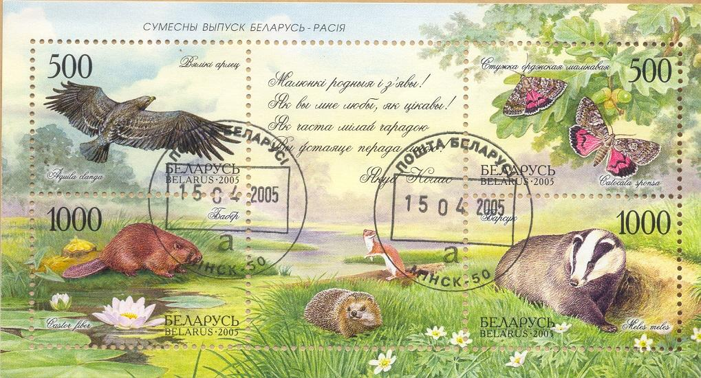 Stamp of Belarus